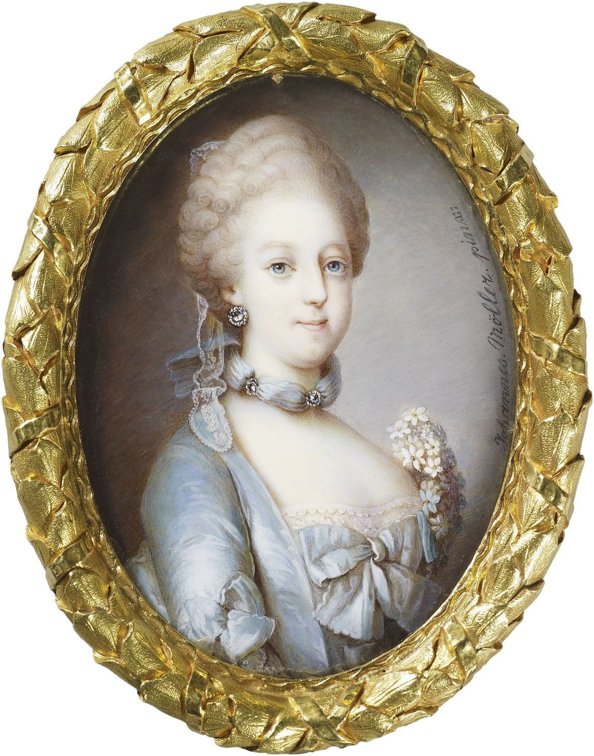 Princess Caroline Matilda of Great Britain (1751-1775), Queen of Denmark